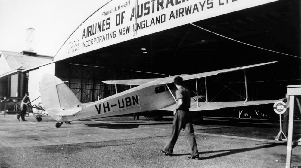 De Havilland DH89 biplane pictured outside a hangar at the airfield, Archerfield, ca. 1937 Sign writing on the hangar advertises Airlines of Australia, incorporating New England Airways Ltd. Biplane Kiata has the registration number VH-UBN. The Airlines of Australia hangar is Hangar No. 4 at Archerfield, Brisbane.